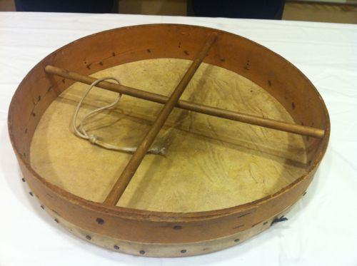 Bottom view of bodhrán made in the early 1970s or earlier. Note scarf-joined frame.